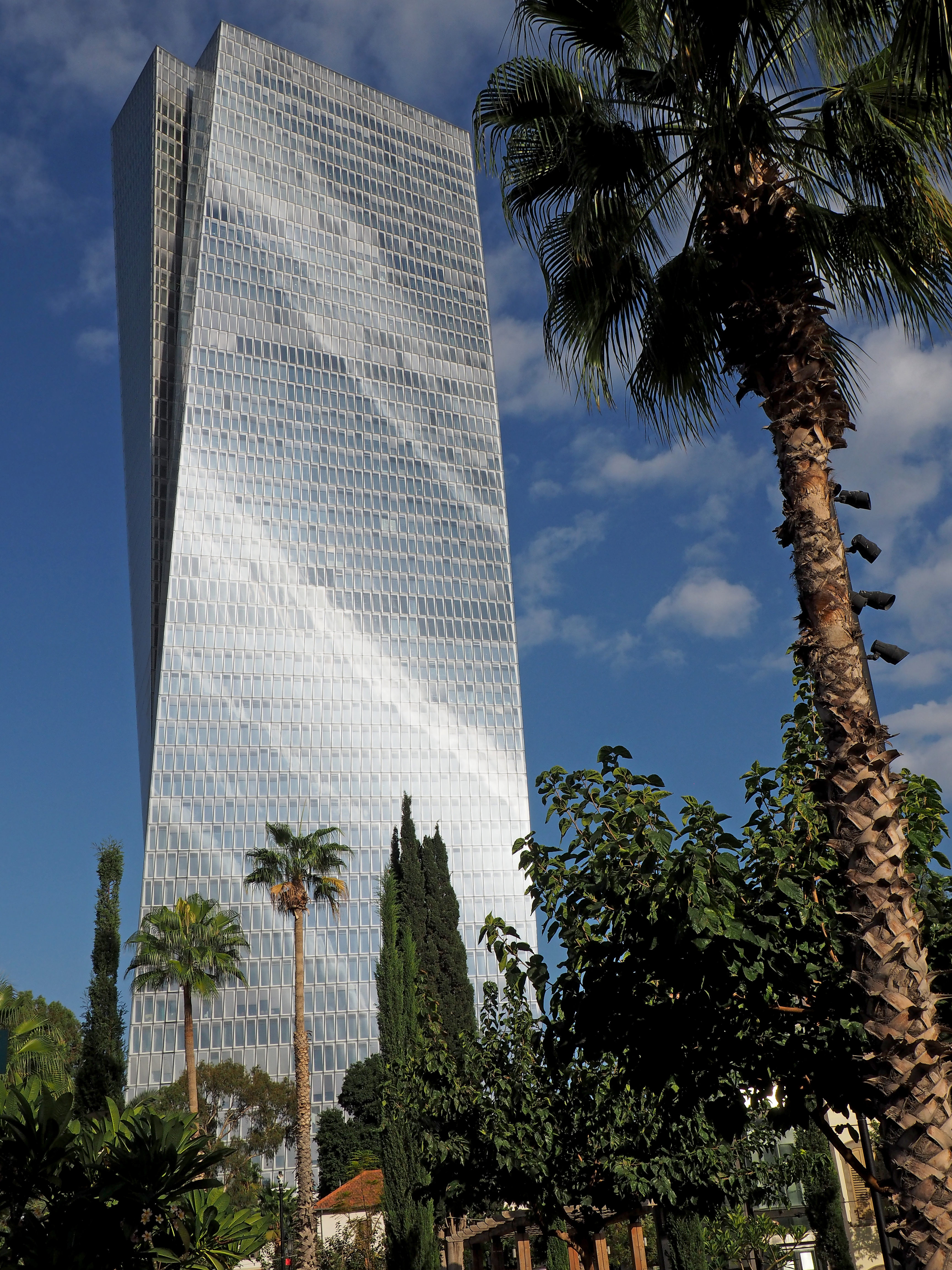 Azriely Sarona tower, western facade from Sarona compound, Tel Aviv.